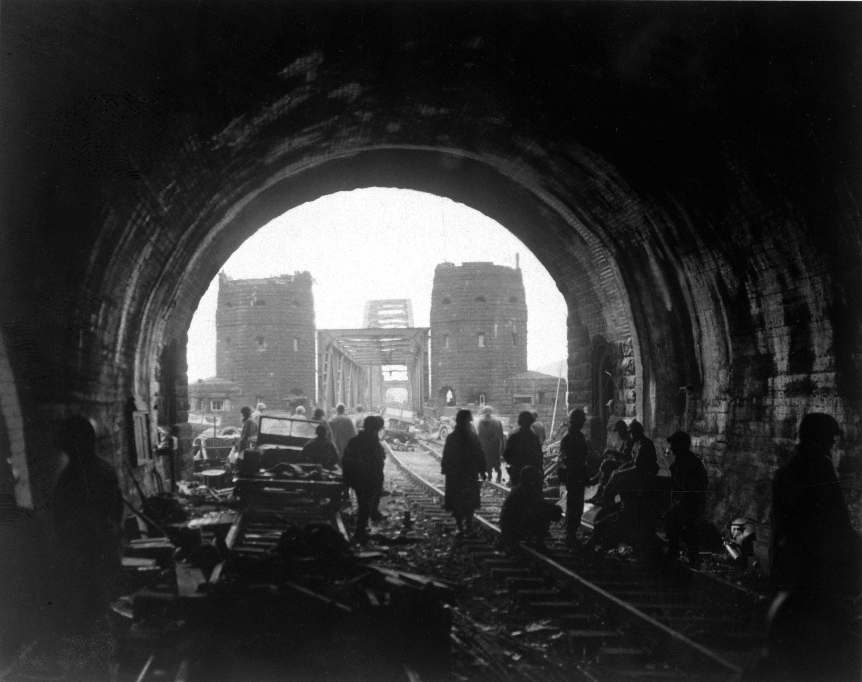 Ludendorff Bridge and Erpeler Ley tunnel at Erpel (eastern side of the Rhine) – First U.S. Army men and equipment pour across the Remagen Bridge; two knocked out jeeps in foreground. Germany, 11 March 1945.